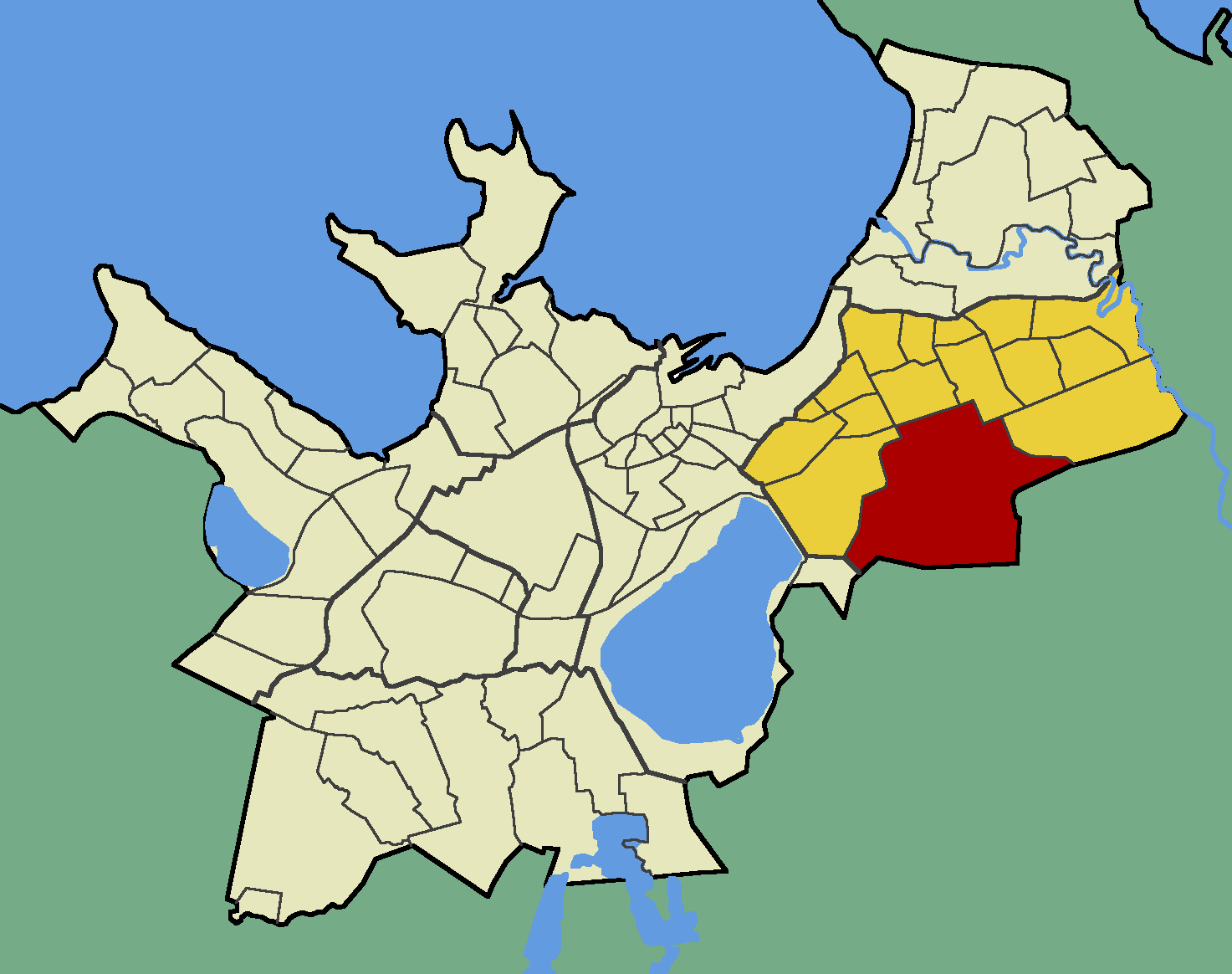 Map of Tallinn (Estonia) with borders of the quarters, Lasnamäe district and Sõjamäe quarter emphasised